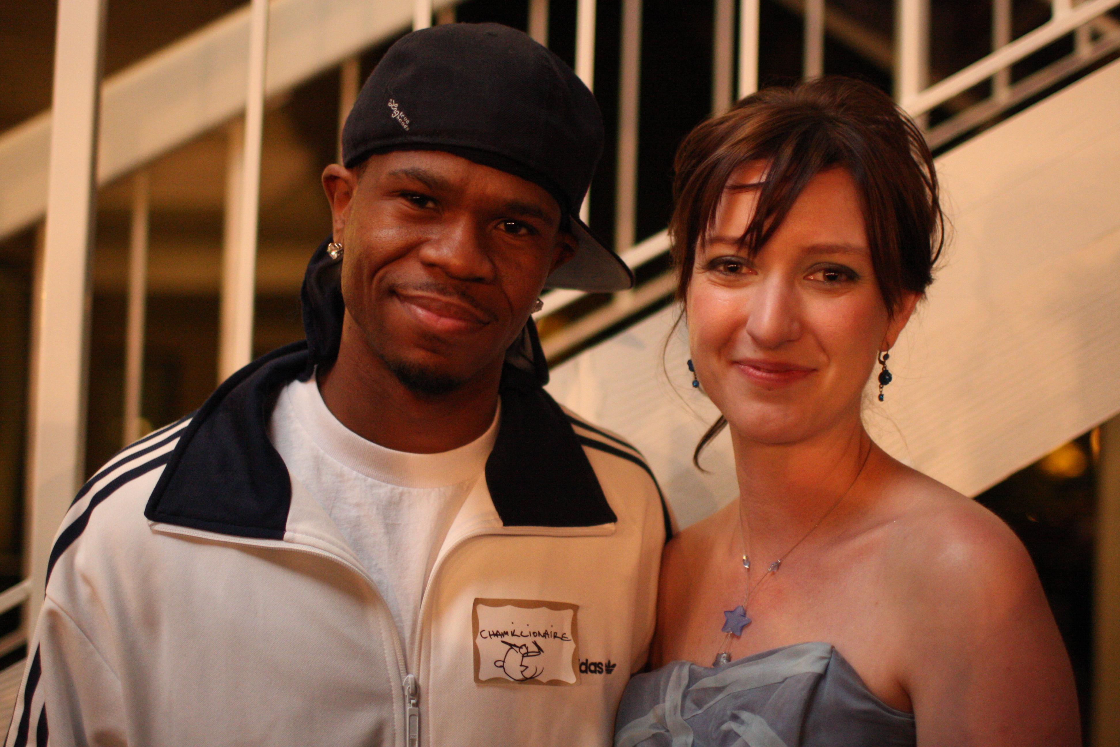 Chamillionaire and Cyan Banister. (CC) Brian Solis, and .